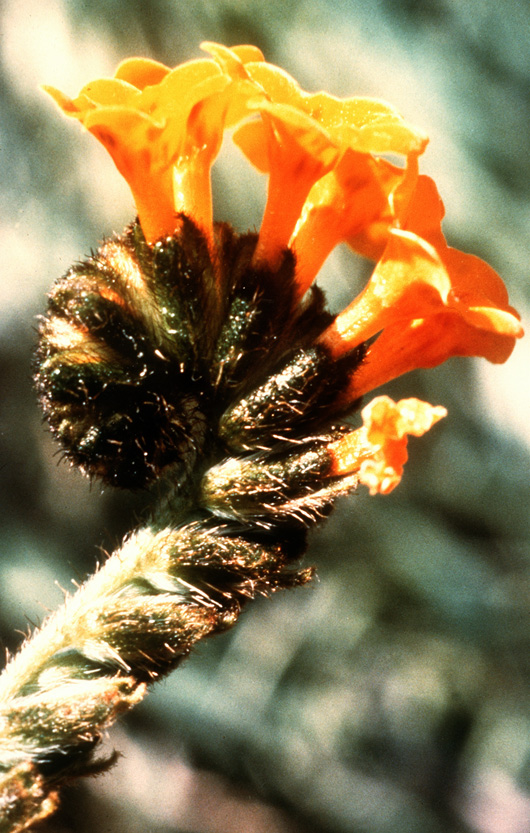 Amsinckia grandiflora US Government photo